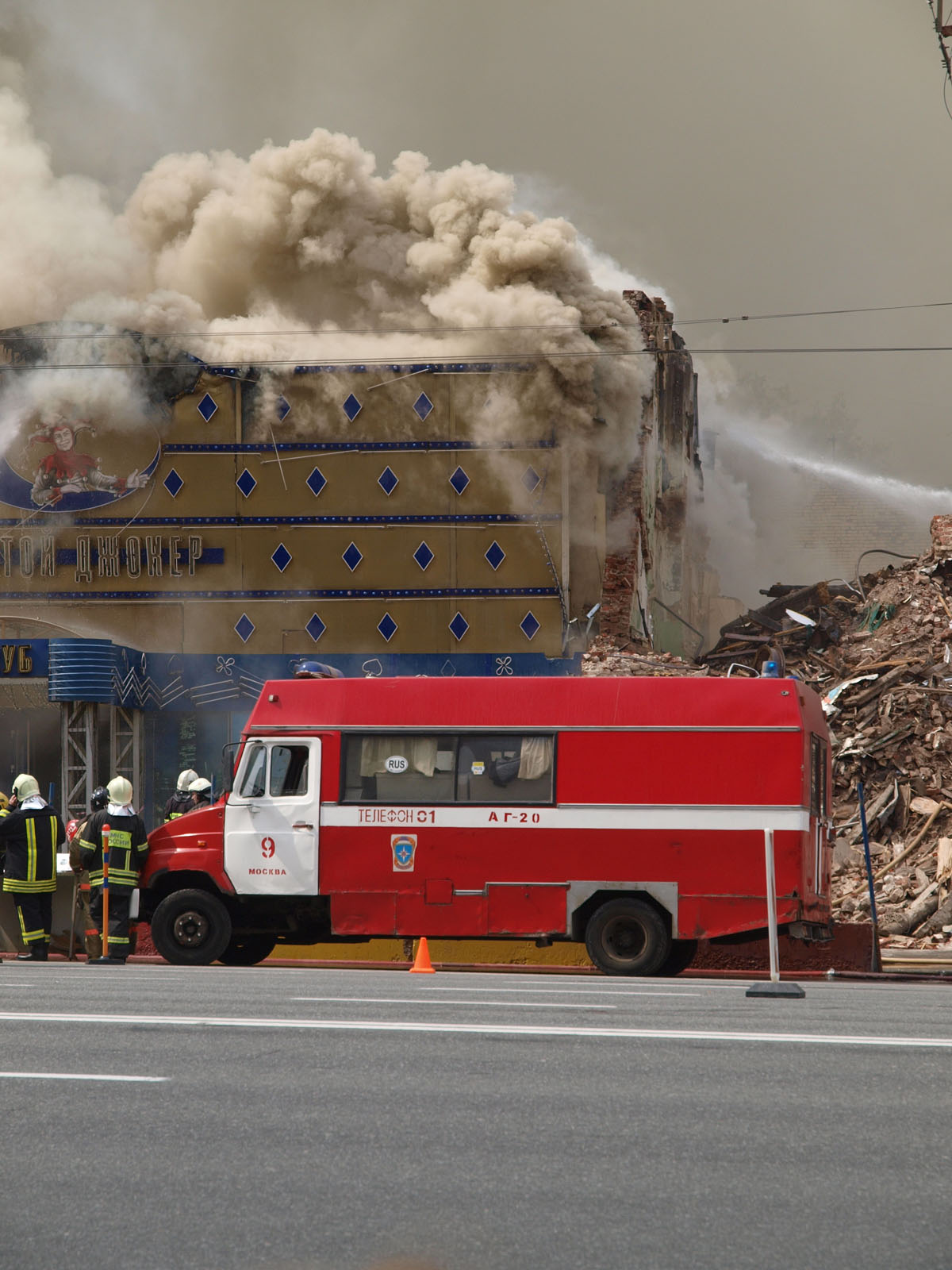 12:20, May 11, 2009, Moscow. A fire broke out at a two-story, 150-year-old building at Smolenskaya Square housing a gambling outfit. Heavy firefighting machines arrived on site at 12:30; open flames were suppressed by 13:20 and the fire was declared completely over at 16:37. See annotated gallery at Smolenskaya Square (Moscow) fire of May 11, 2009